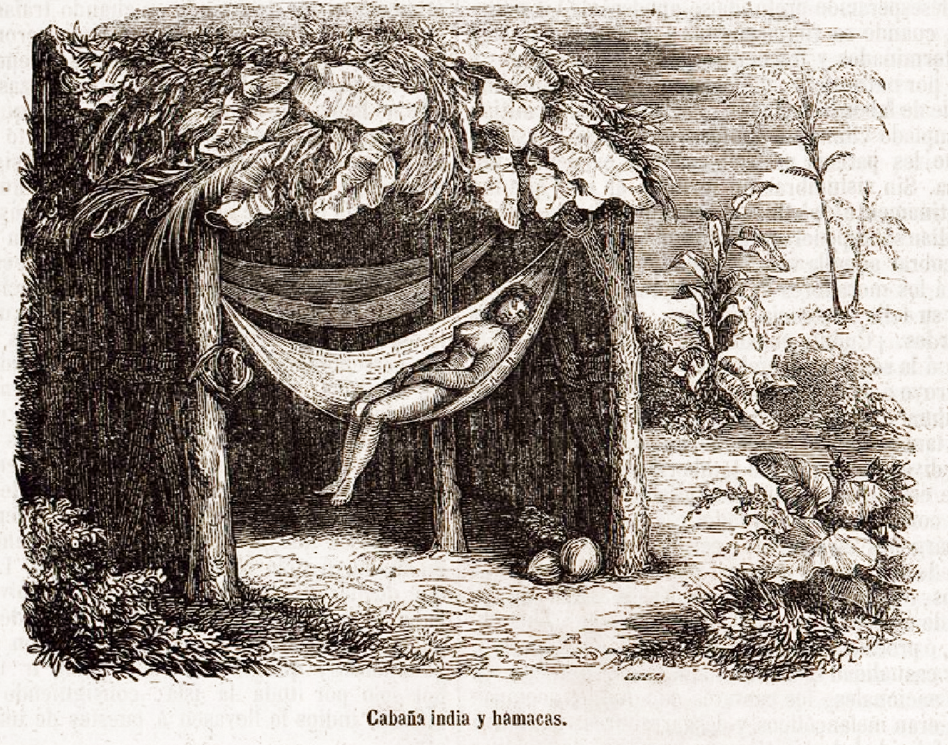 Indian hut and hammocks